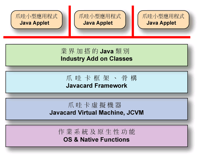 Produced by Danny.umd, and the .ai file is saved by Danny.umd. Contact Danny.umd for .ai file using